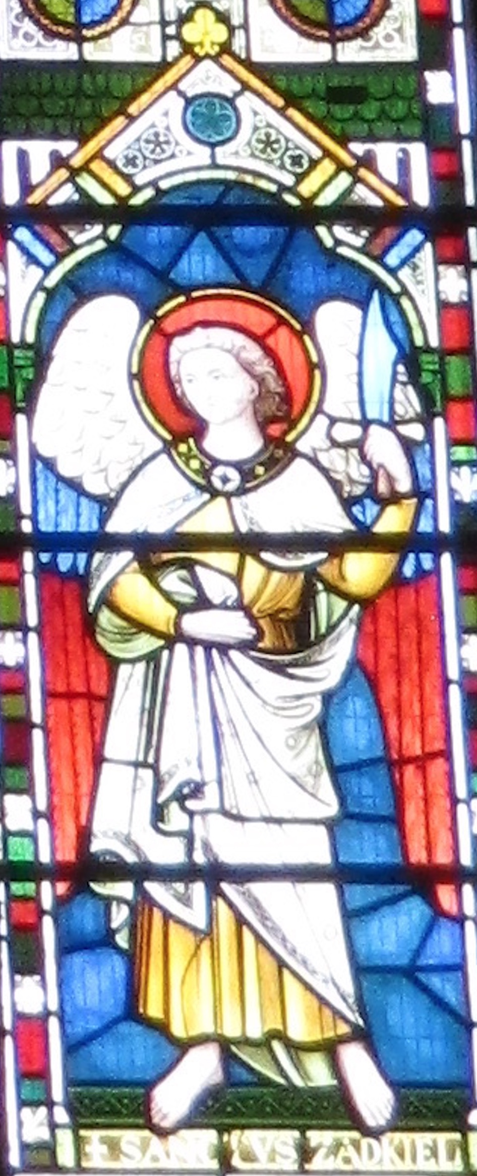 Saint Zadkiel the Archangel, stained glass made in 1862 at St Michael and All Angels Church, Brighton, East Sussex, England.